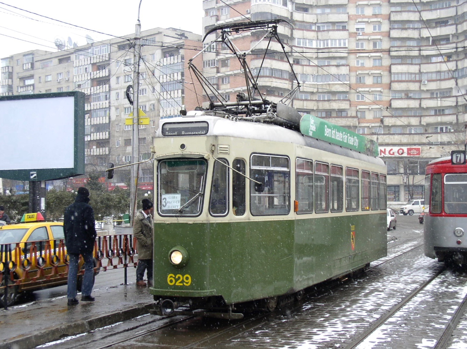 Iasi tram 154, ex-Bern 629, in service on Iasi route 3 during a light snowfall in January 2006. It is facing north-west at the Gara stop, which is the western terminus of route 3. Bern tramcar 629 is a "Swiss Standard"-type tram, and was built in 1961 by SWS.